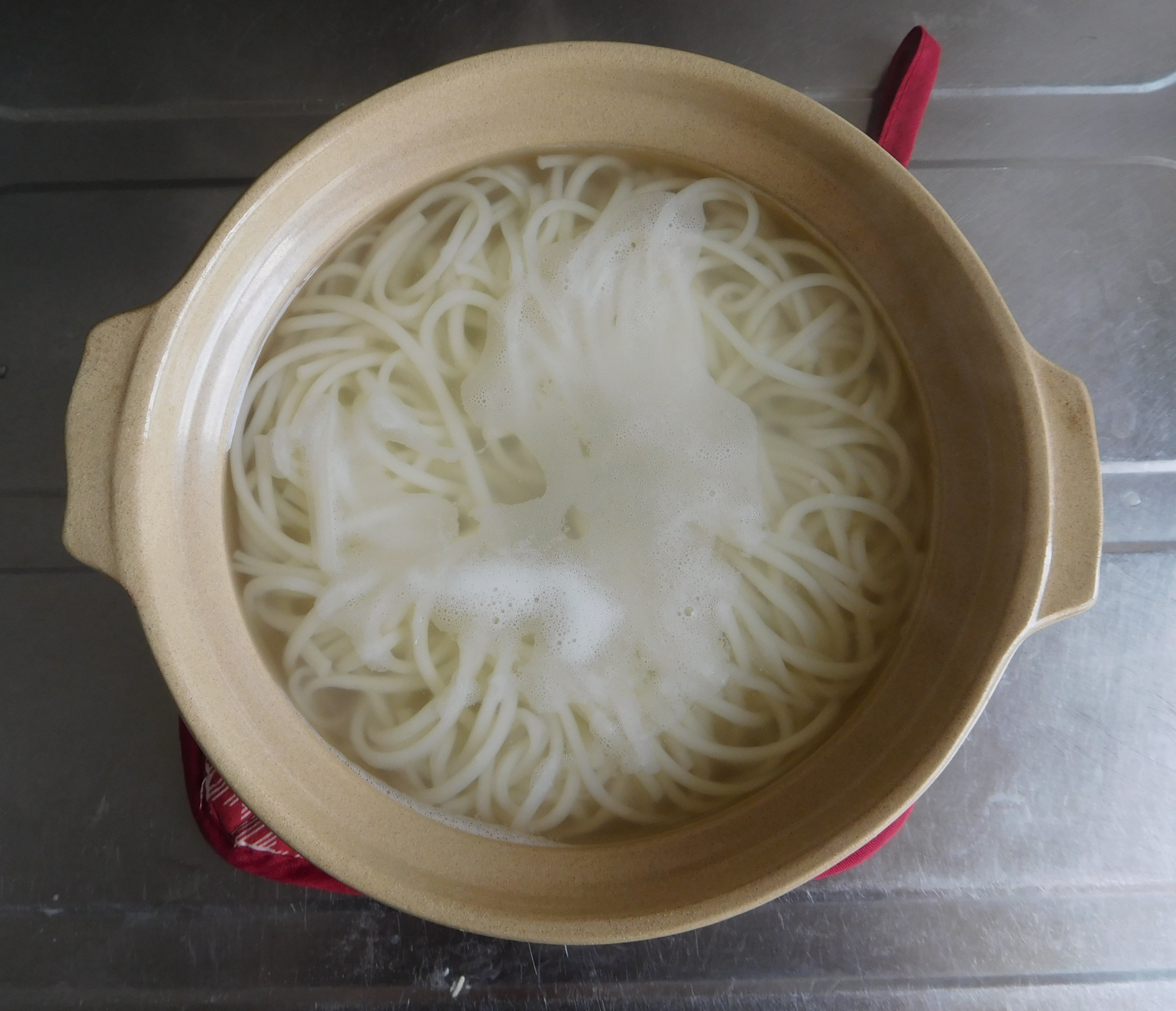 This is boiled Goto Udon, famous noodles in Goto Islands, Nagasaki prefecture, Japan. This was made by Marumasu seimen.